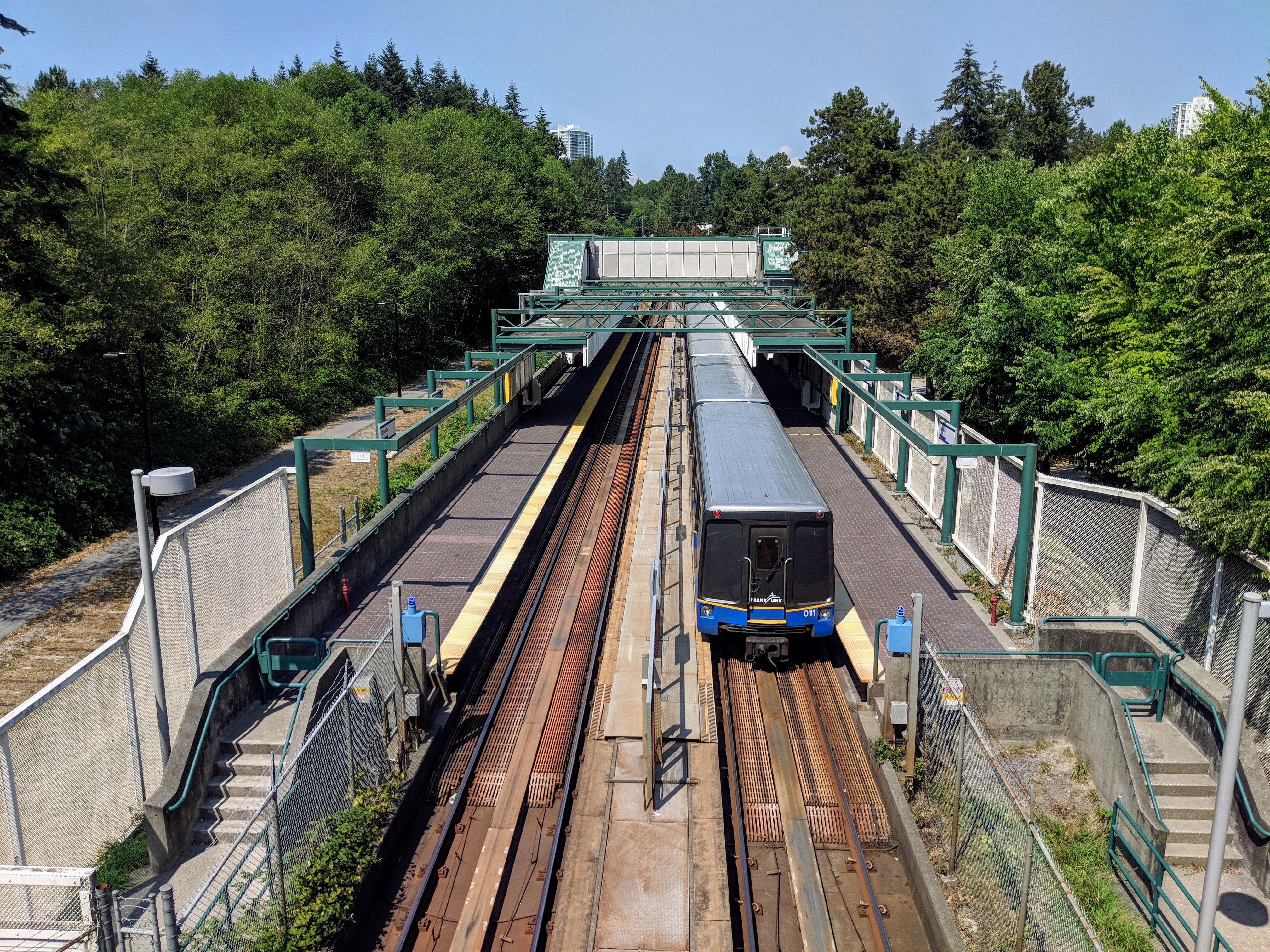 Interior shot of Edmonds station. Photo is taken from at the east end of the station.